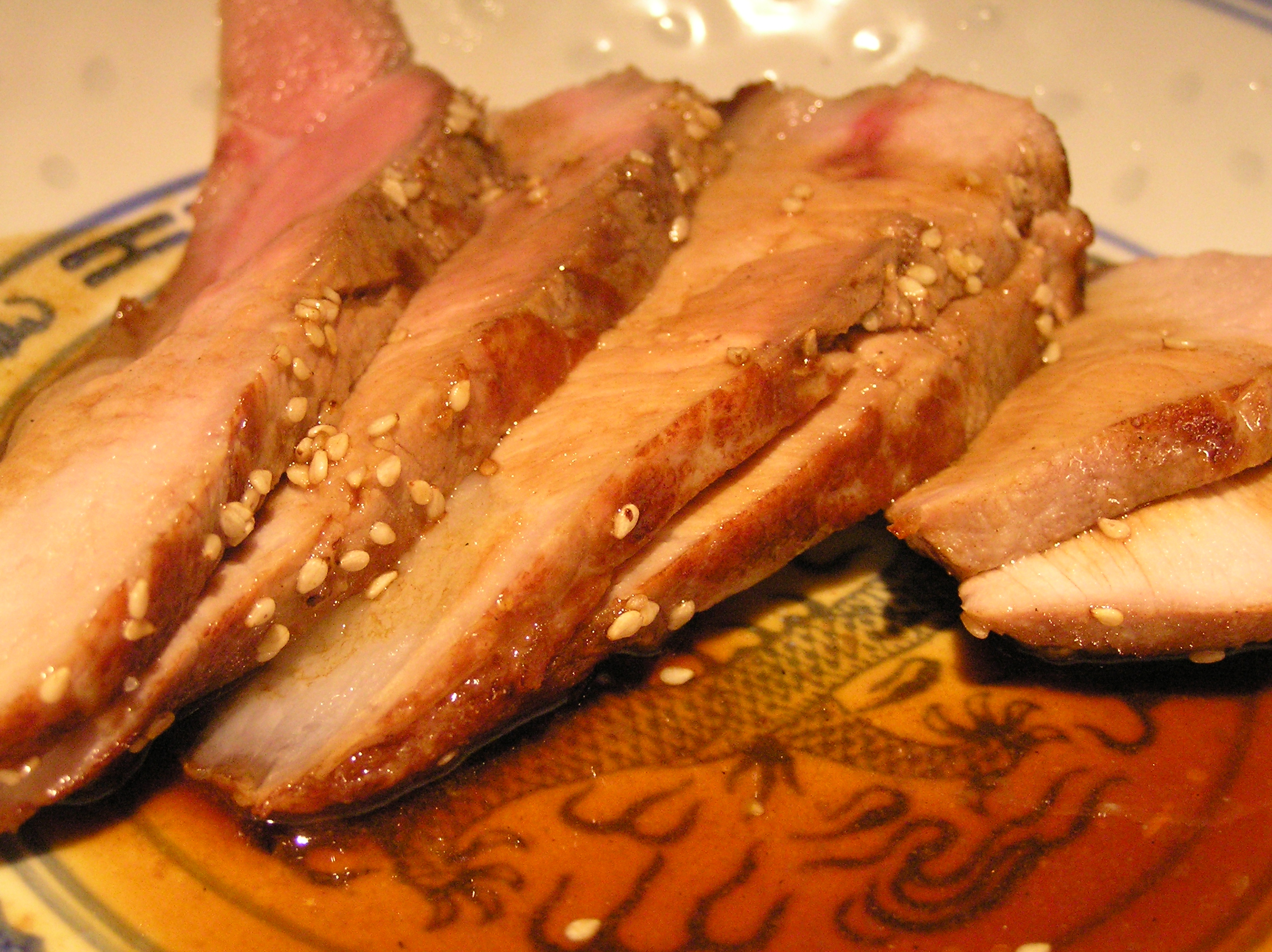 Pork sirloin chop with cider pan sauce - seared on both sides on the stove, then sprinkled it with sesame seeds and moved into the oven at 450F until done. After removing the pork from the pan, I made a quick pan sauce with a splash of apple cider.